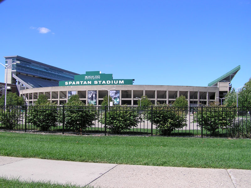 Enlightened Spartan